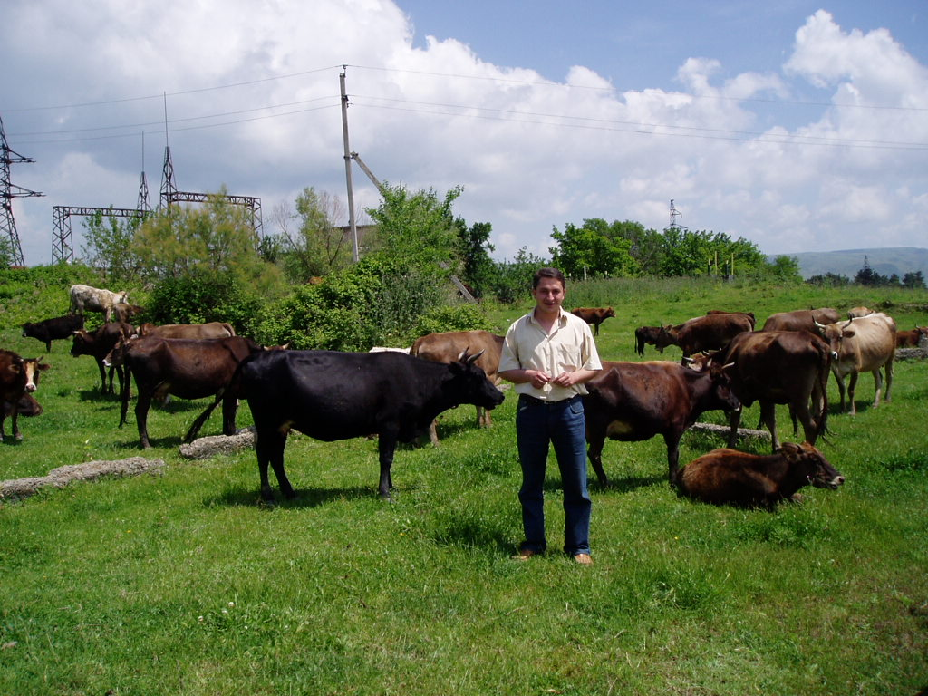 Georgian cattle farmer on a newly privatized farm outside Tblisi